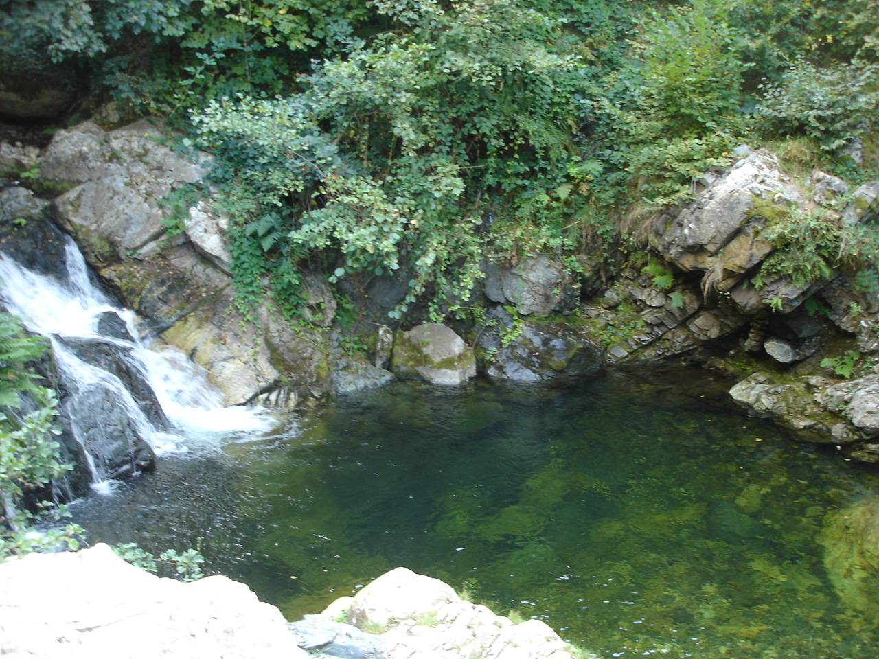 Kapejnci waterfall on Dragor river near the village of Dihovo, near Bitola, Macedonia